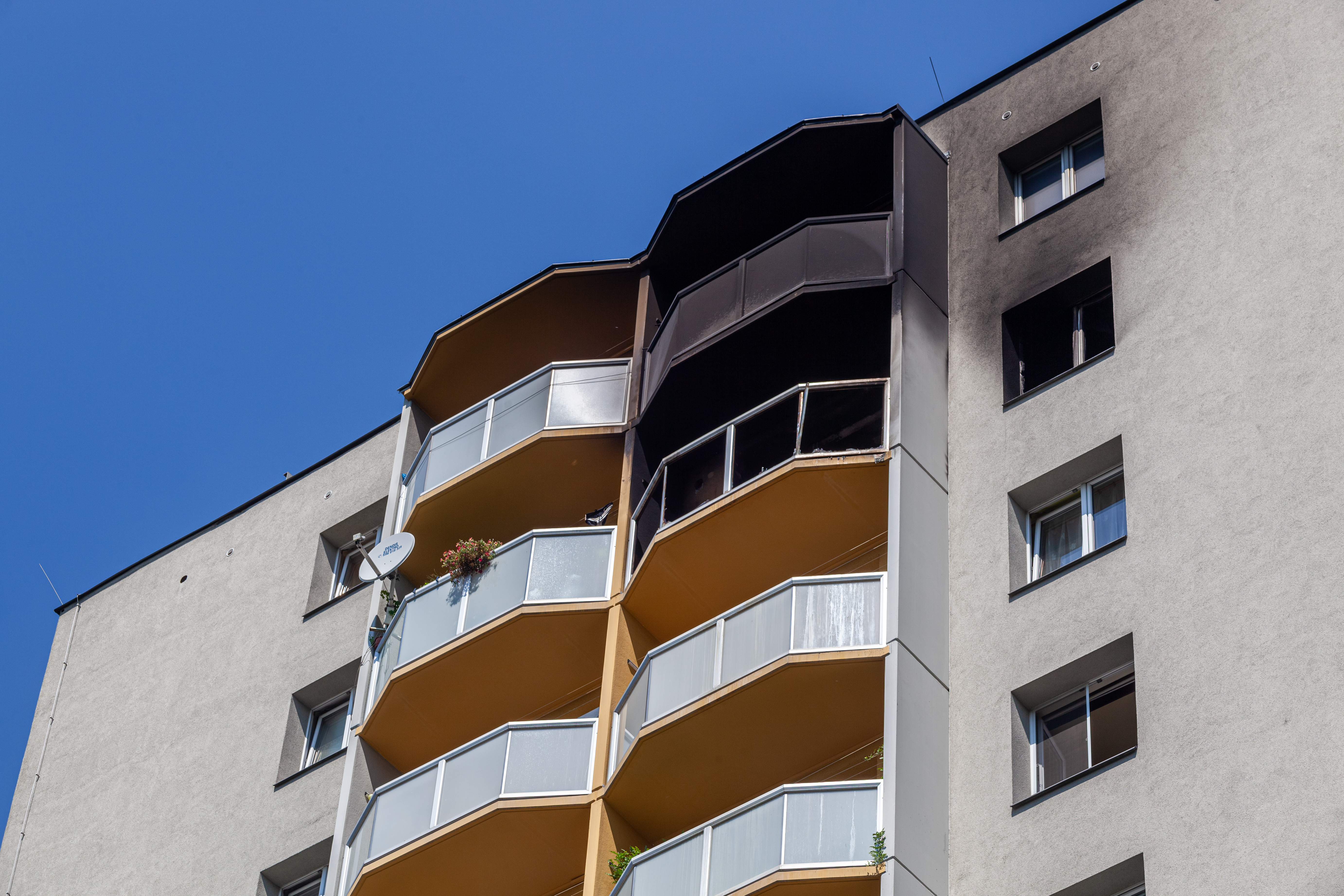 View of the balconies of the damaged building of 2020 Bohumín arson attack, Bohumín, Karviná District, Moravian-Silesian Region, Czechia